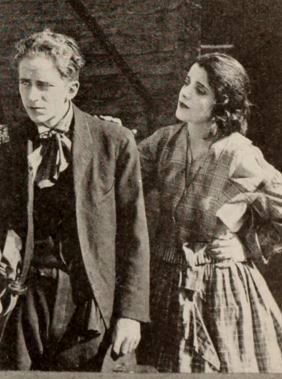 Still from the American drama film The Ghost Flower (1918) with Richard Rosson and Alma Rubens, on page 29 of the August 31, 1918 Exhibitors Herald.